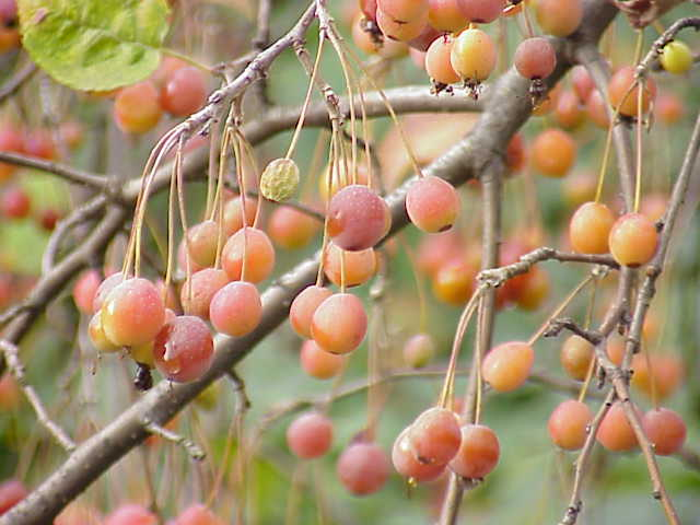 Species: Malus sikkimensis Family: Rosaceae Image No. 1